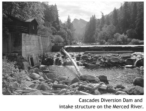 Cascades Diversion Dam formerly at Yosemite Valley, Ca on the Merced River